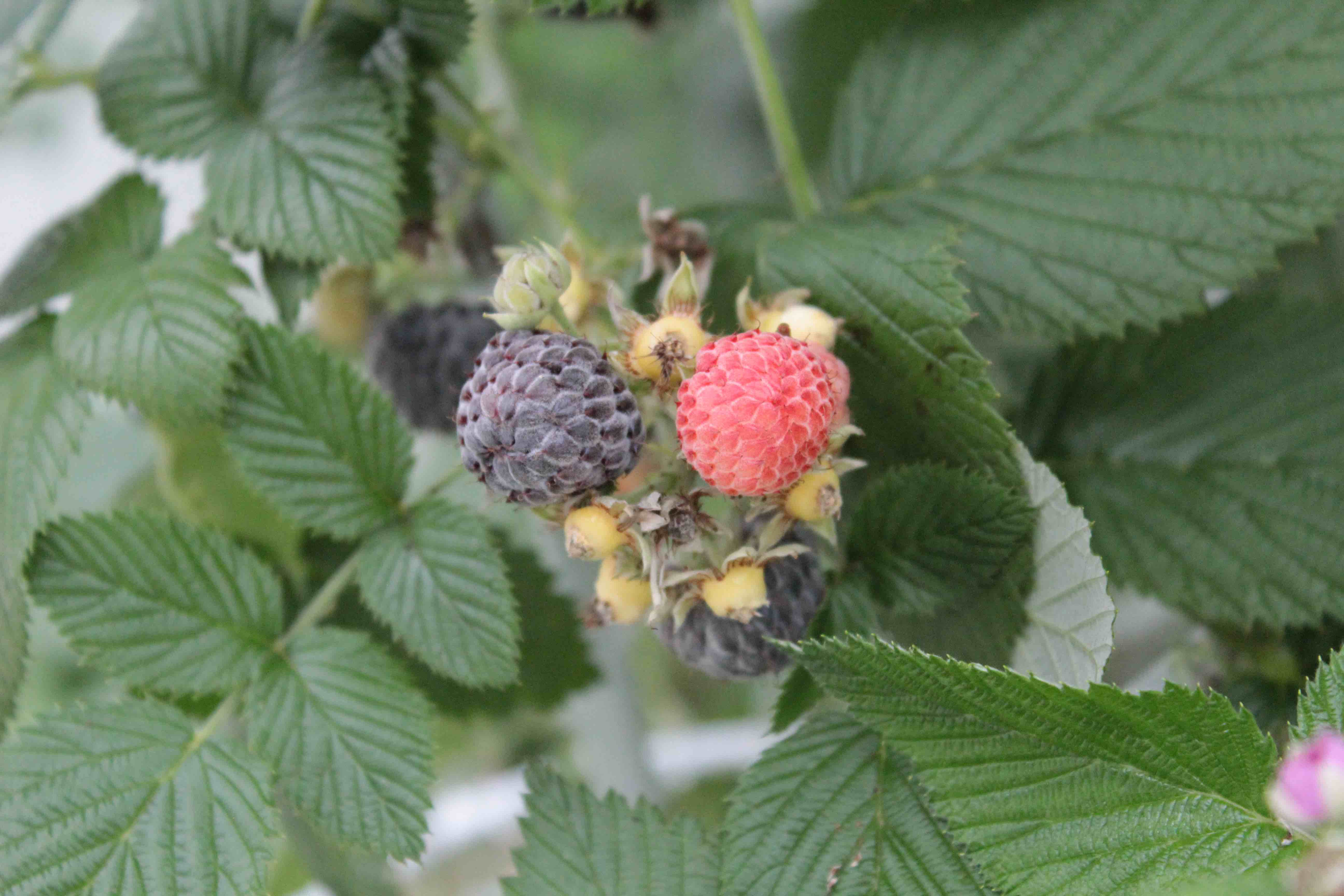 Rubus leucodermis fruits and flower